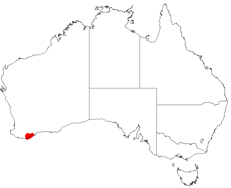 Hakea lasiocarpha Occurrence data downloaded from Australasian Virtual Herbarium on 22 November 2018 using